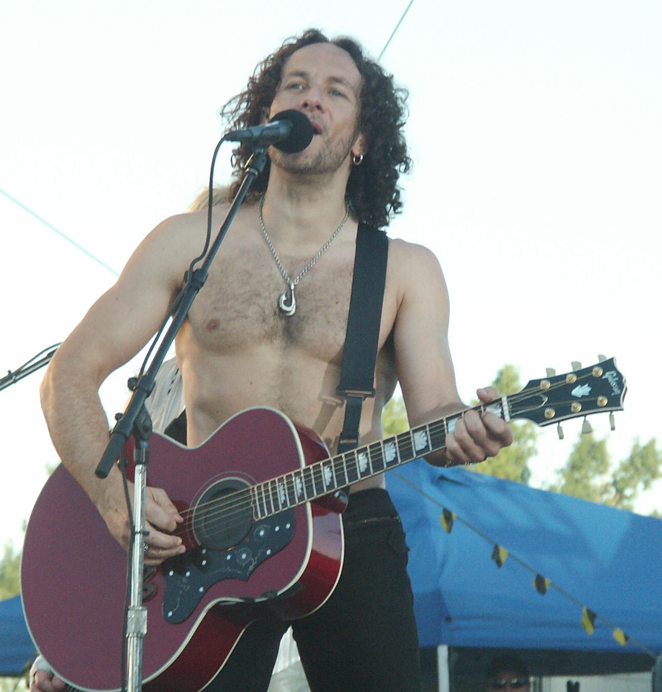 Taken by Weatherman90 at North Dakota State Fair Def Leppard Concert, 2007-07-26. Photo by Matt Becker